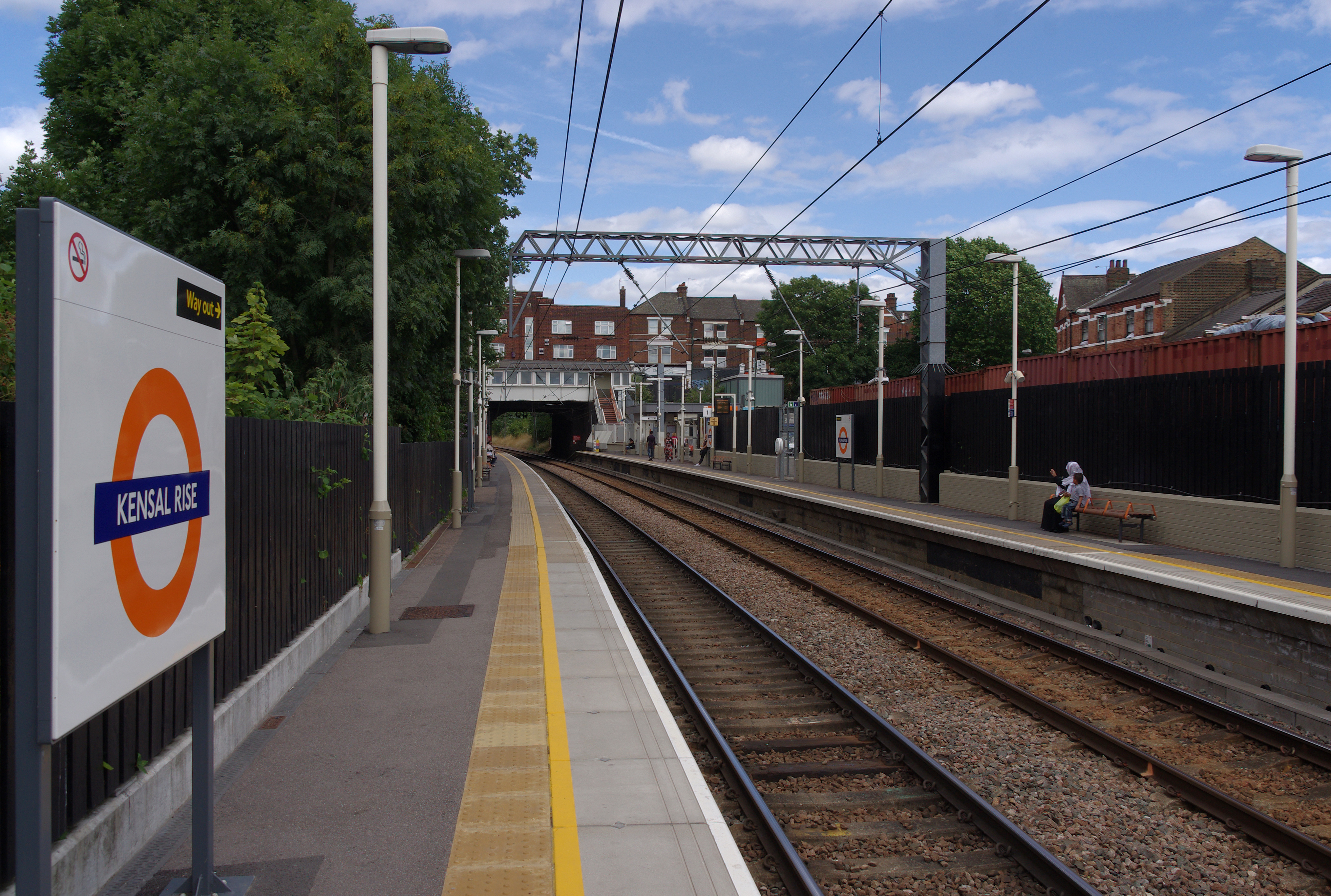 Looking east along the North London Line from the eastbound platform at Kensal Rise.